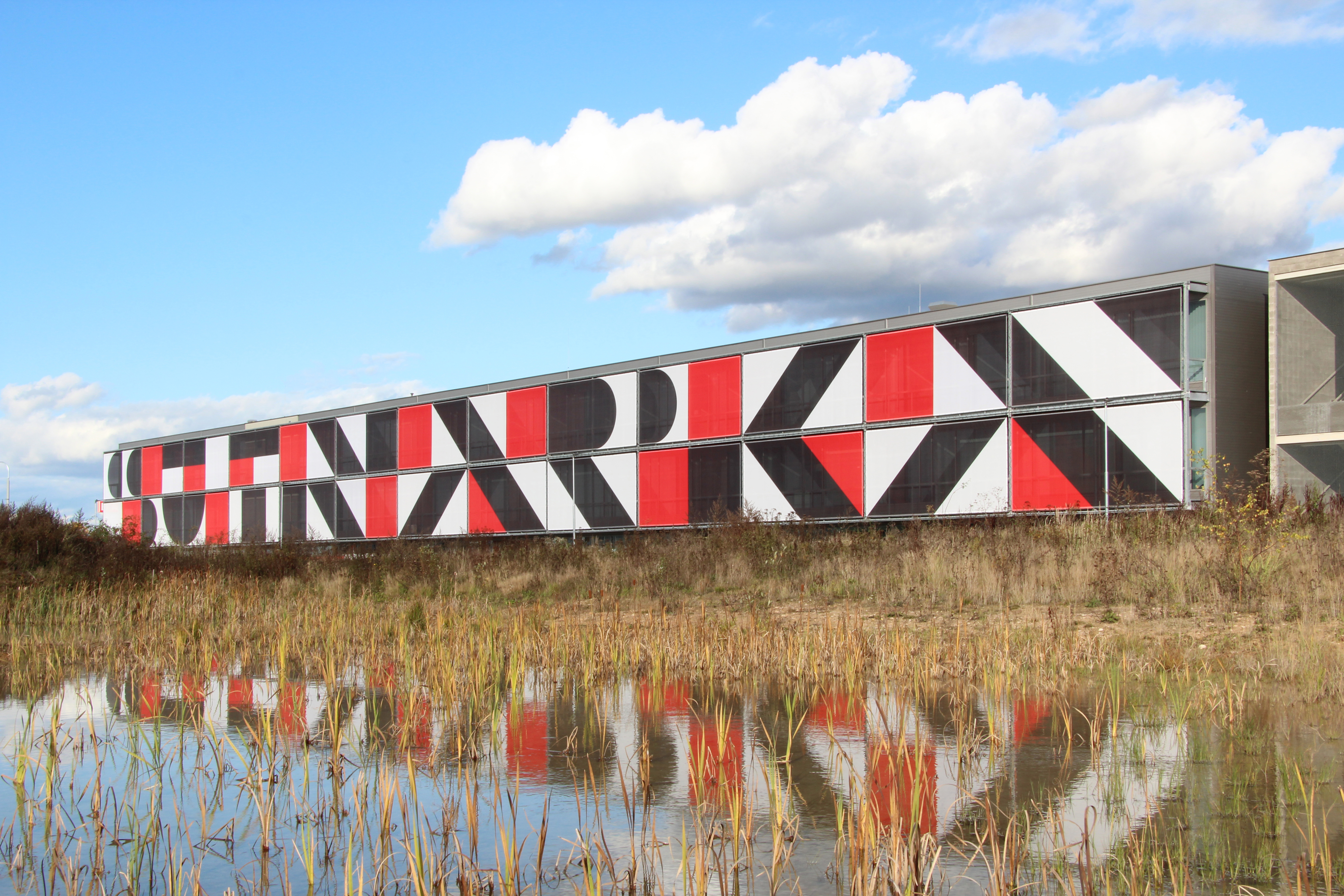 Building of Ladislav Sutnar Faculty of Design and Art, 2019